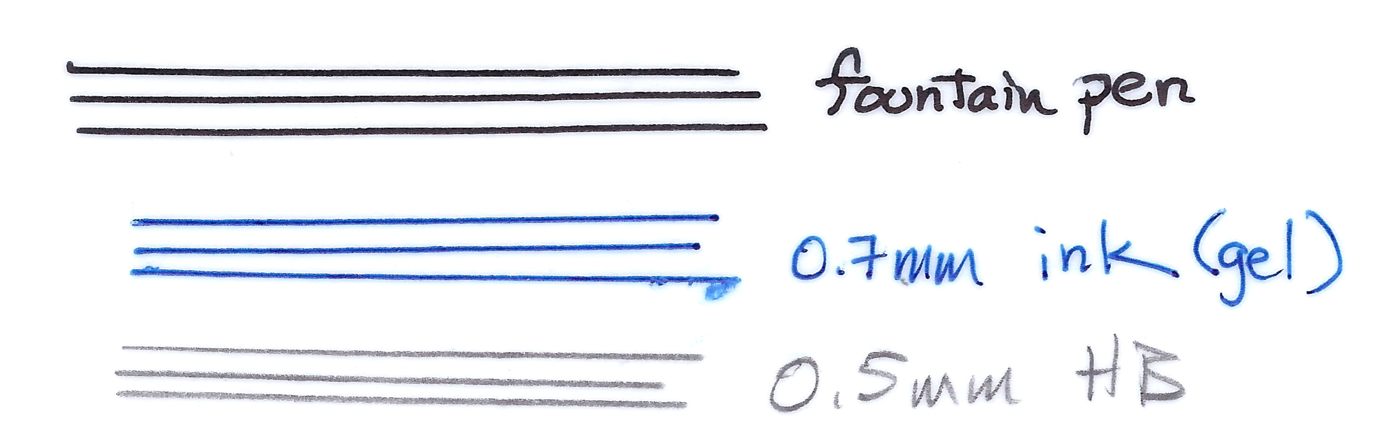 Lines drawn on vellum with fountain pen, gel pen, and HB pencil and then scanned at 600 pixels per inch. No additional shap masking. Ink has specular defects; pencil lines have paper tooth defects.